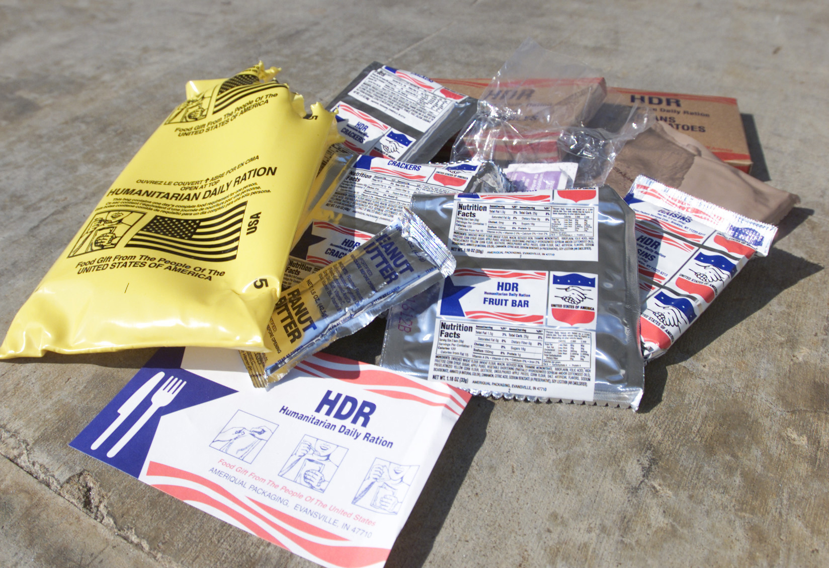 Operation Enduring Freedom (Oct. 7, 2001) -- Secretary of Defense Donald H. Rumsfeld announced that two U.S. Air Force C-17 cargo aircraft airdropped enough daily rations for 37,500 people in regions of Afghanistan where displaced persons are at risk of starvation. Photo shows actual Humanitarian Daily Rations (HDR) which were transported from bases in the U.S. earlier in the week. U. S. Navy Photo by Tina M. Ackerman. (RELEASED)